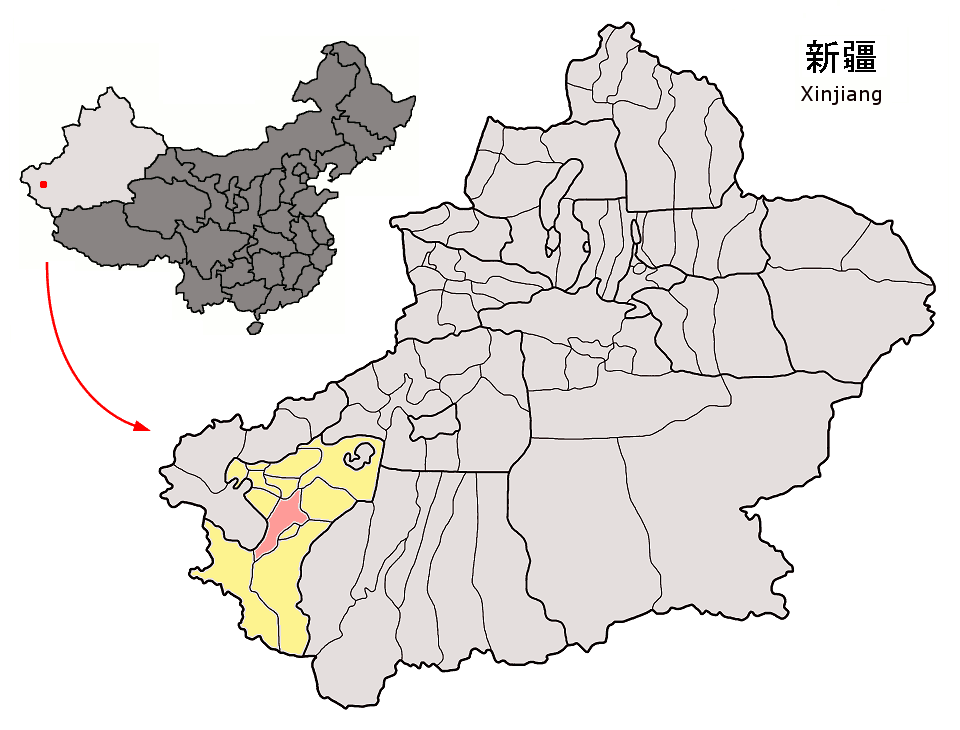 Location of Yarkand County (pink) and Kashgar Prefecture (yellow) within Xinjiang autonomous region of China Map drawn in september 2007 using various sources, mainly : Xinjiang Uygur autonomous region administrative regions GIS data: 1:1M, County level, 1990 Xinjiang Counties map from